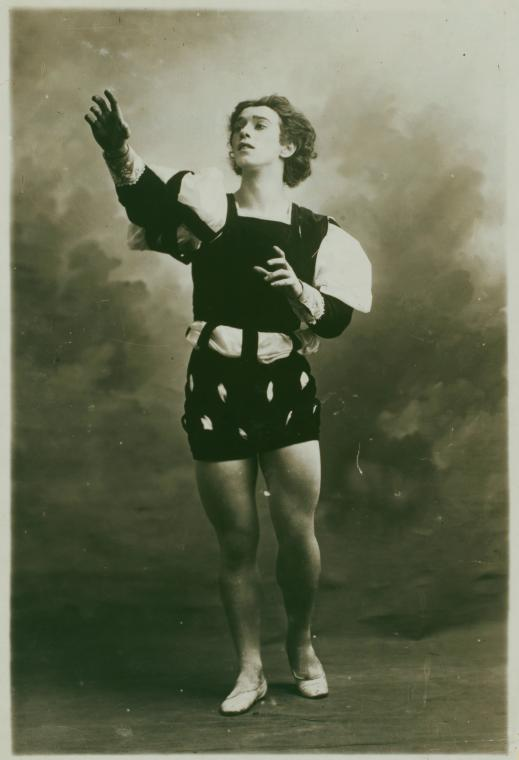 Nijinsky as Albrecht in Giselle